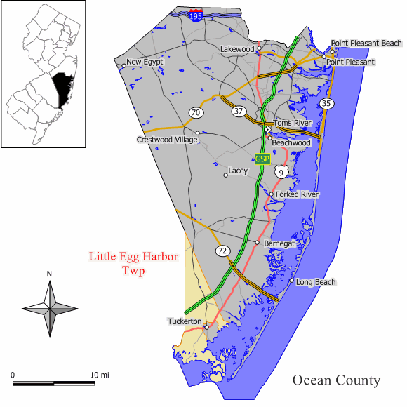 Source: Jim Irwin Original work by Jim Irwin, December 2005.